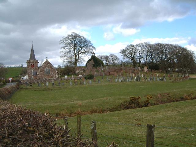 Dalton Church The present building is close to the remains of a previous church. The small village of Dalton boasts, somewhat incongruously, a Thai restaurant.